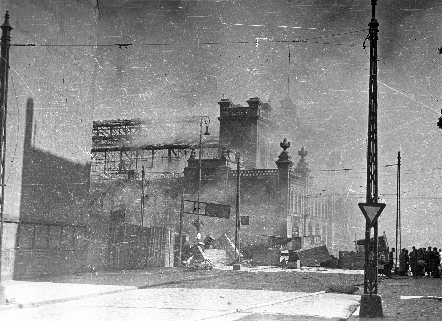 Warsaw Uprising. Hala Mirowska on fire, view from Solna Street (currently John Paul II Avenue)